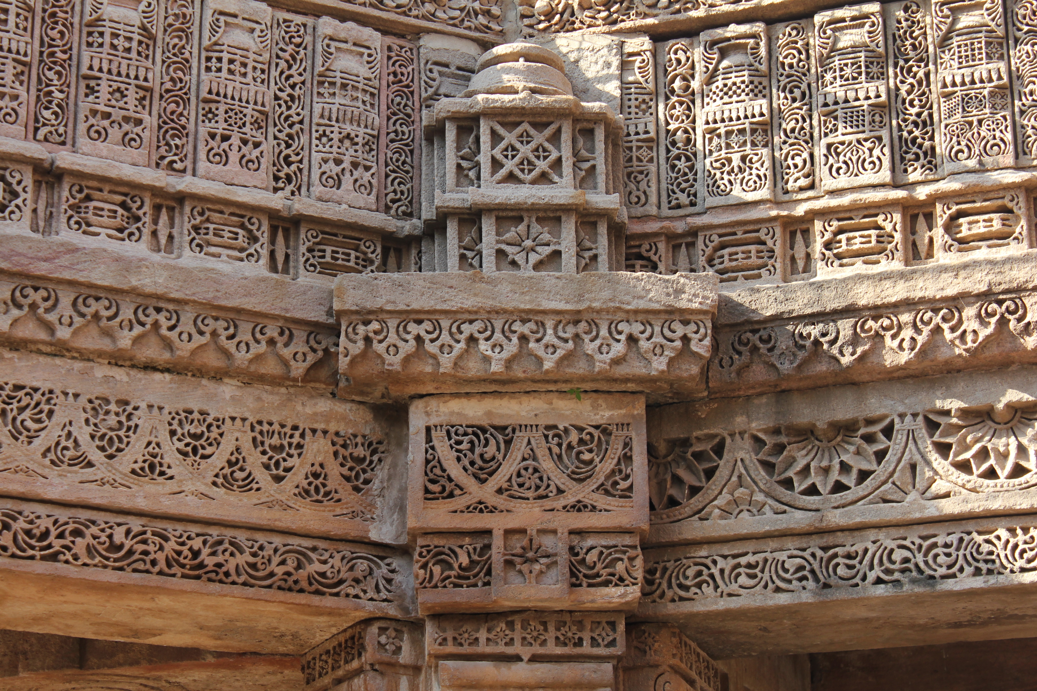 Ancient Indian Art